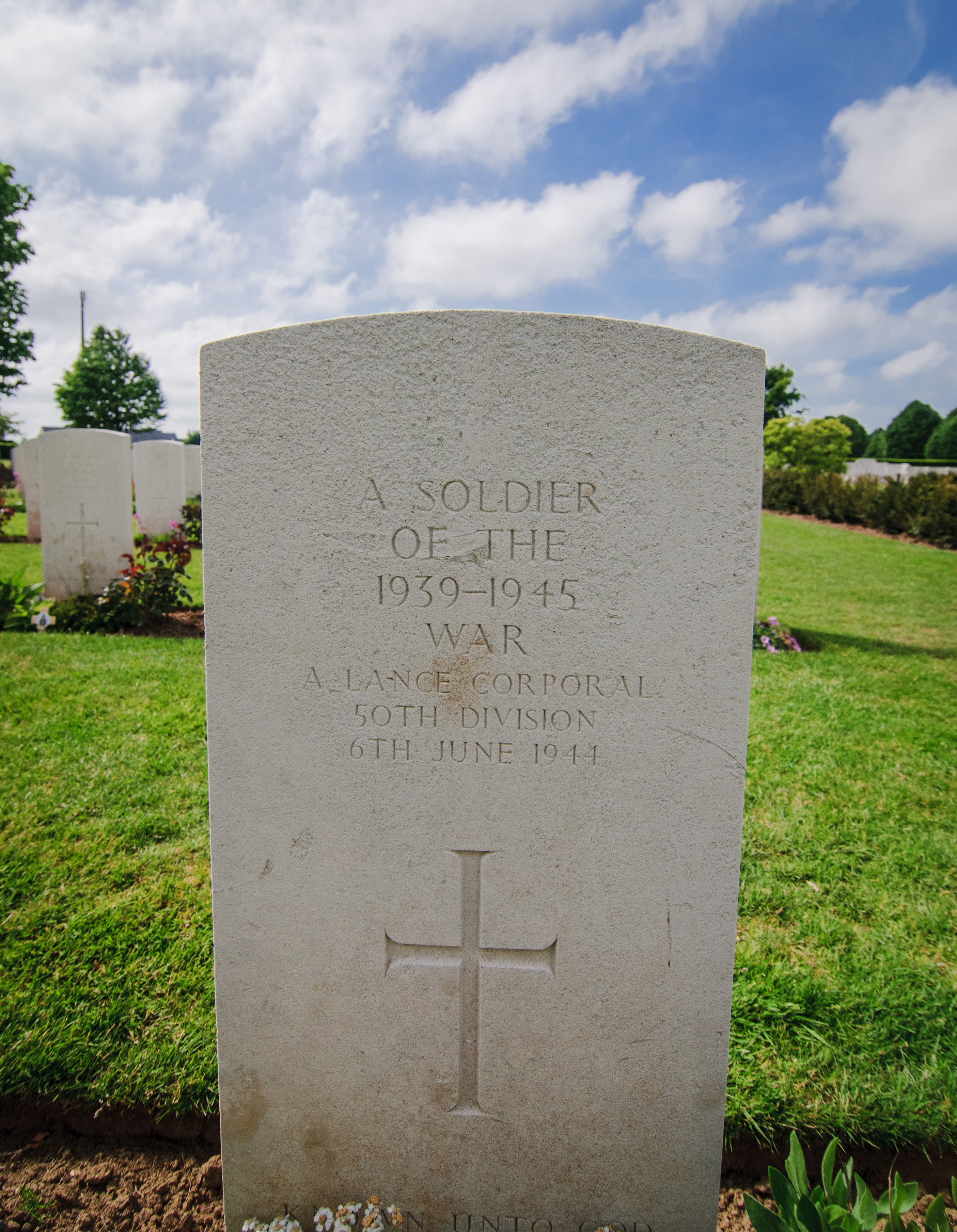 British War Cemetery - Bayeux. Tokina AT-X Pro SD 12-24mm F4 (IF) DX